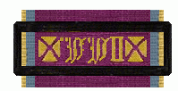 Dienstauszeichnung der Landwehr Service decoration IInd. Class of the Yeomanry